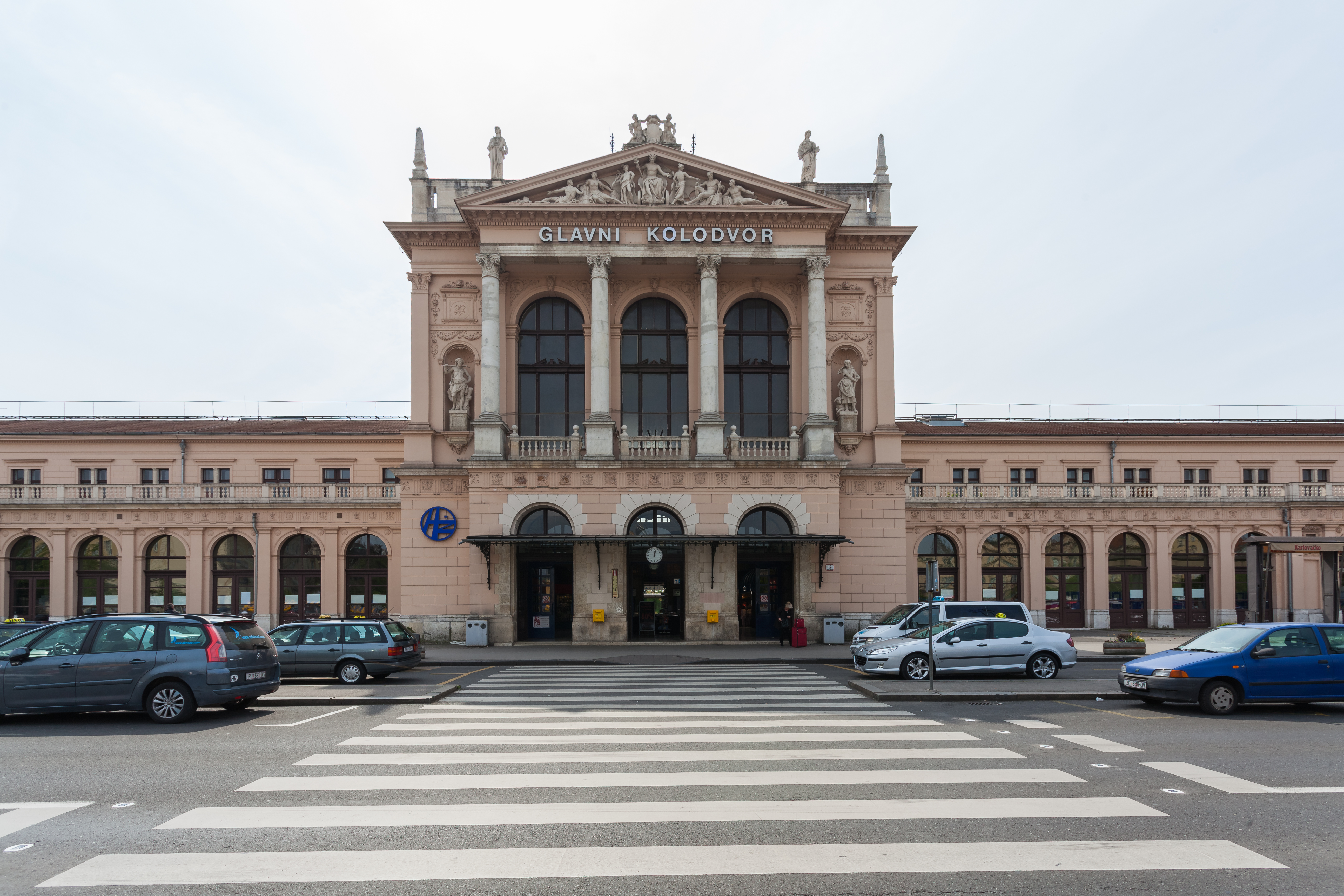 Main Railway Station, Zagreb, Croatia